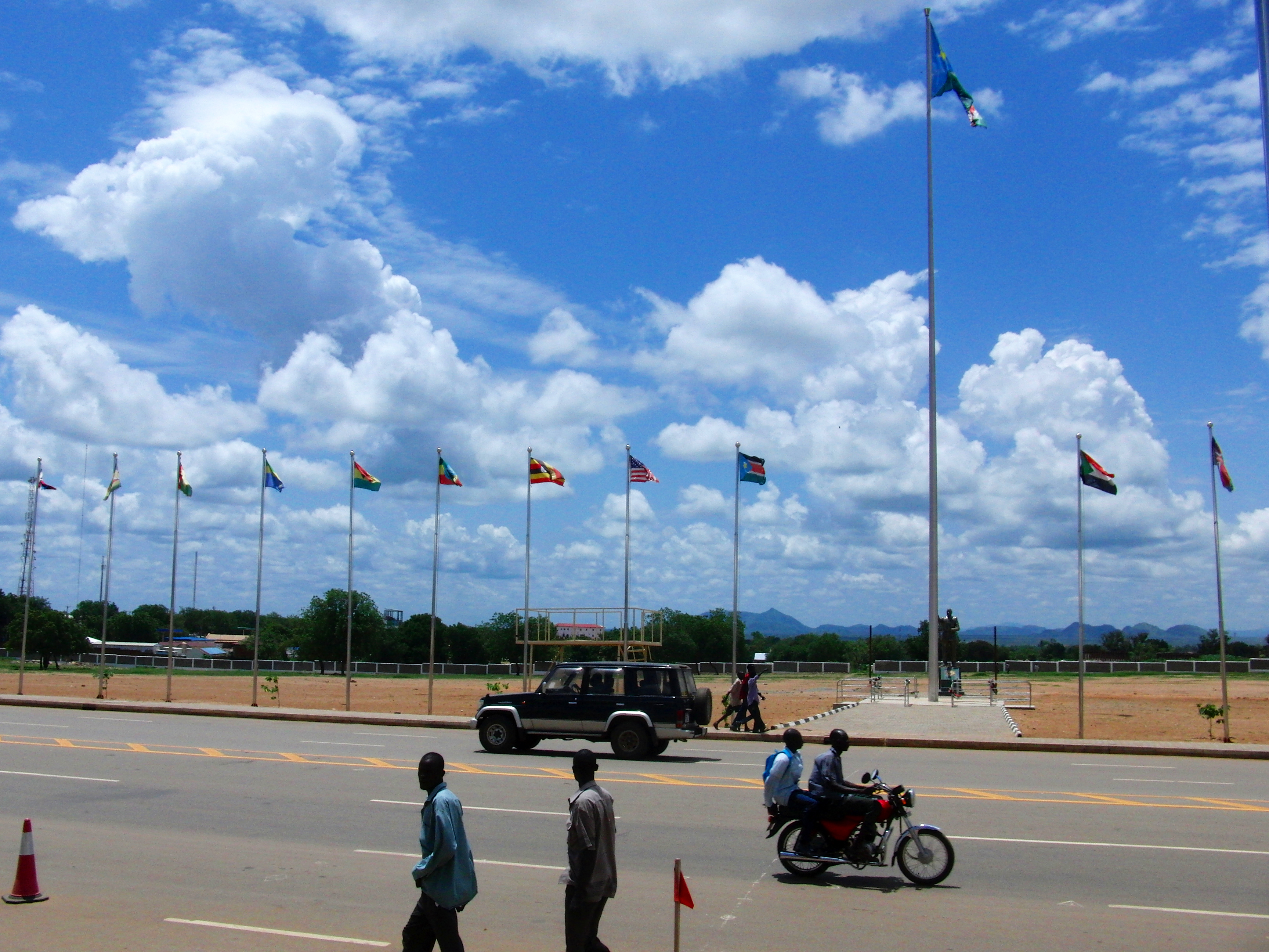 John Garang Mausoleum Square in Juba, South Sudan. Place of the main festivites around the founding of the state.